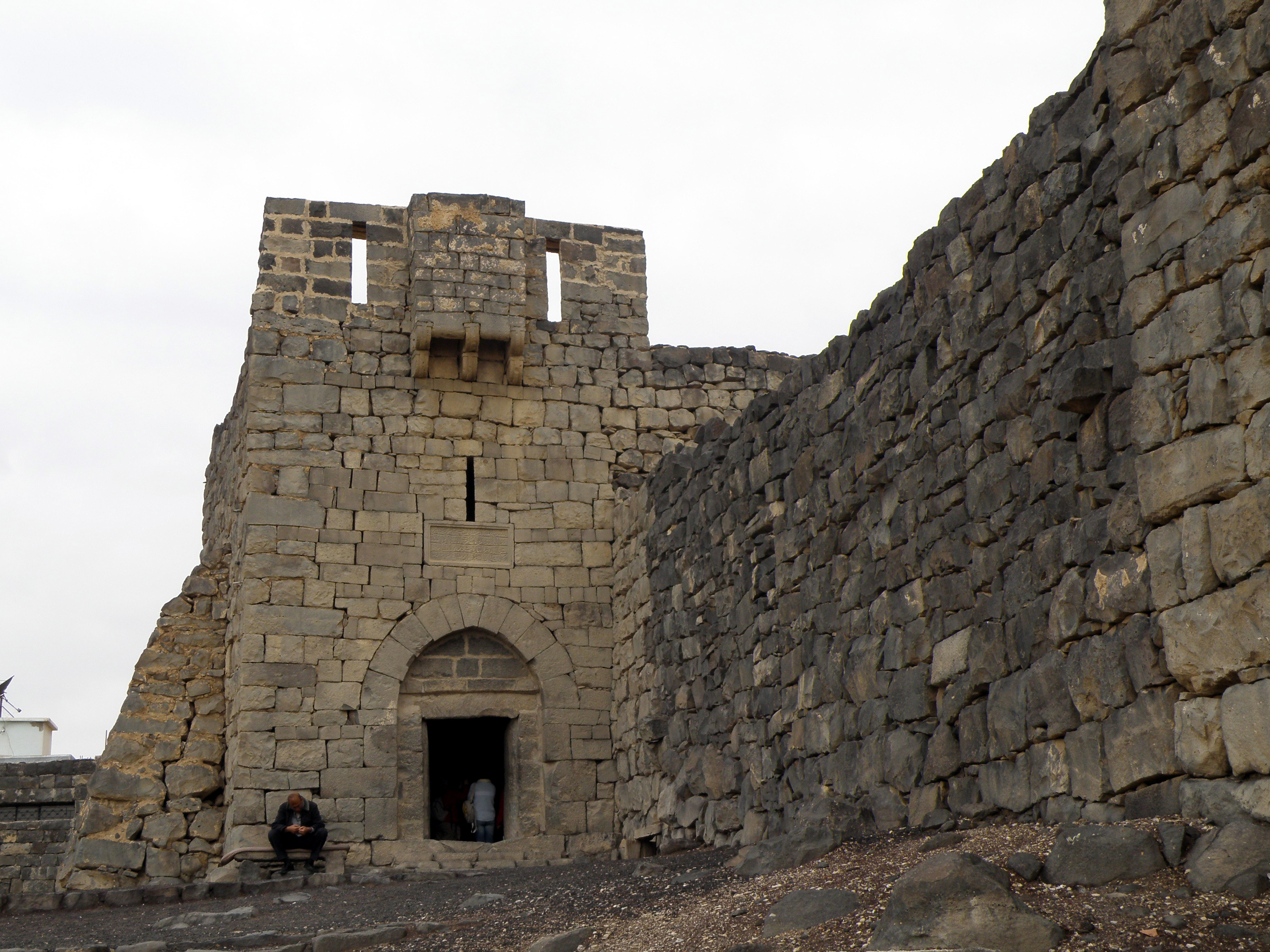 Al Azraq castle in Jordania